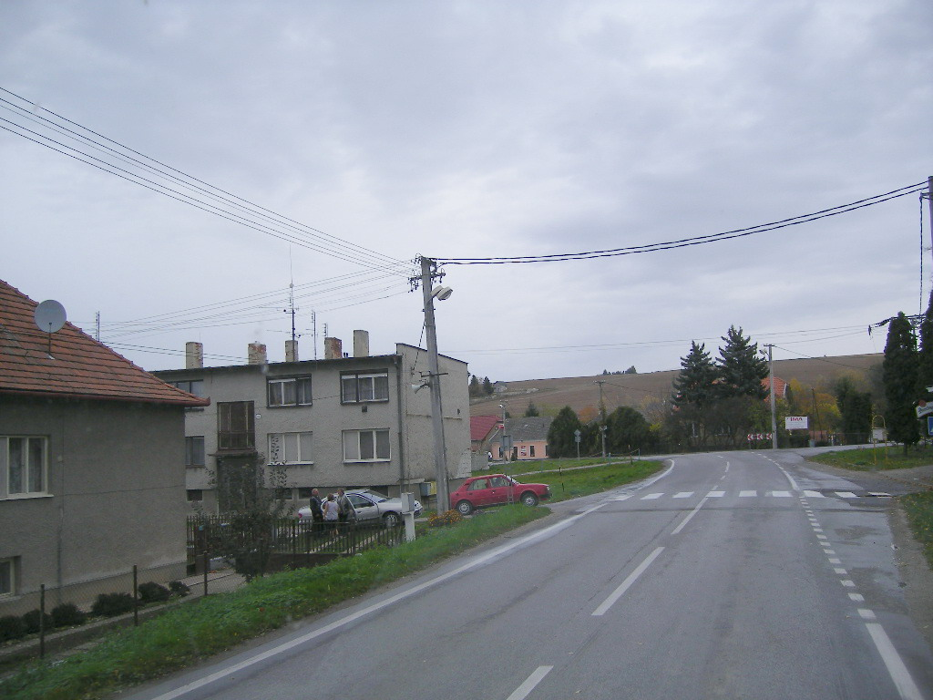 Brodzany